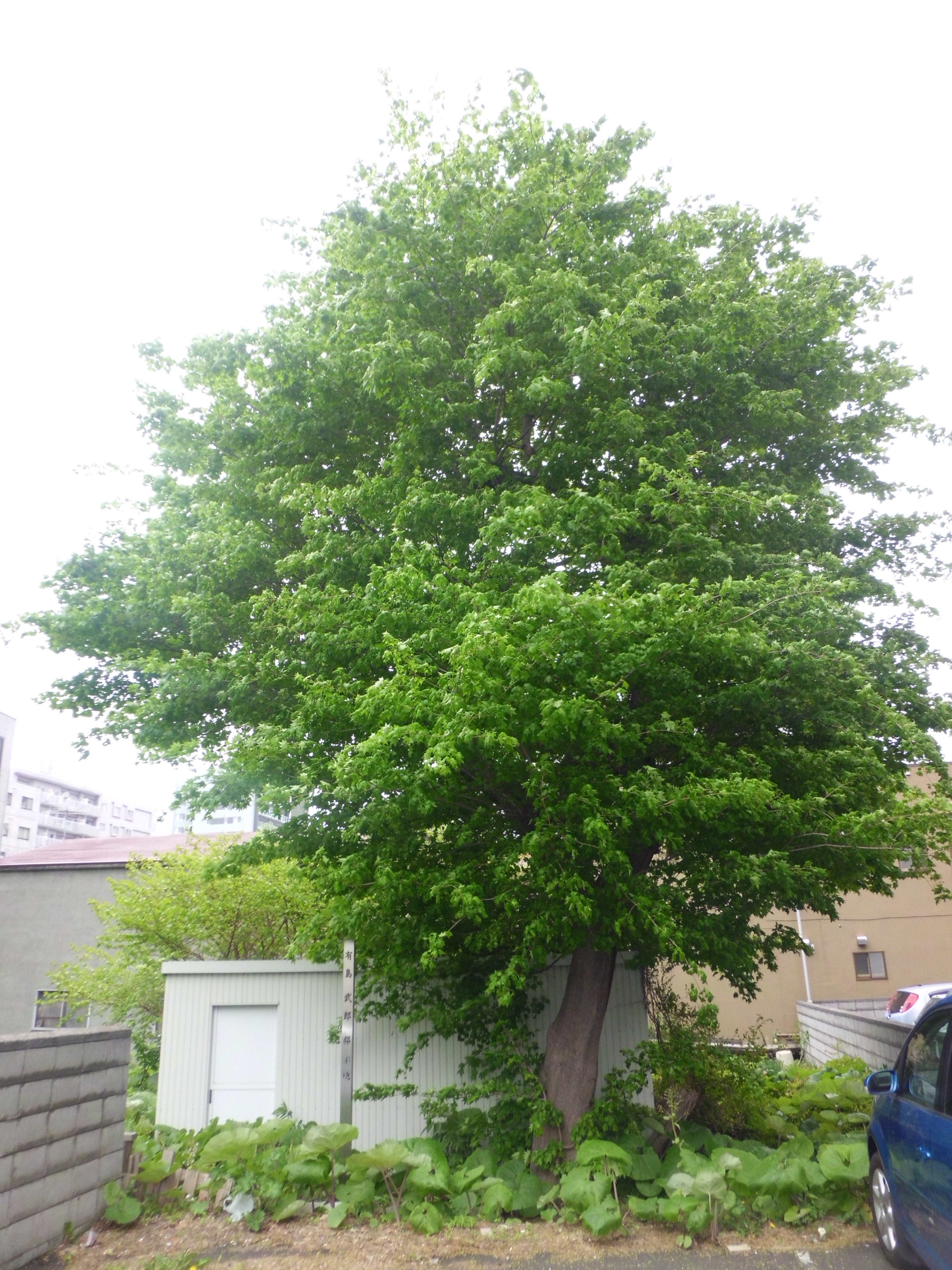 Remains of House of Takeo Arishima on Toyohira River